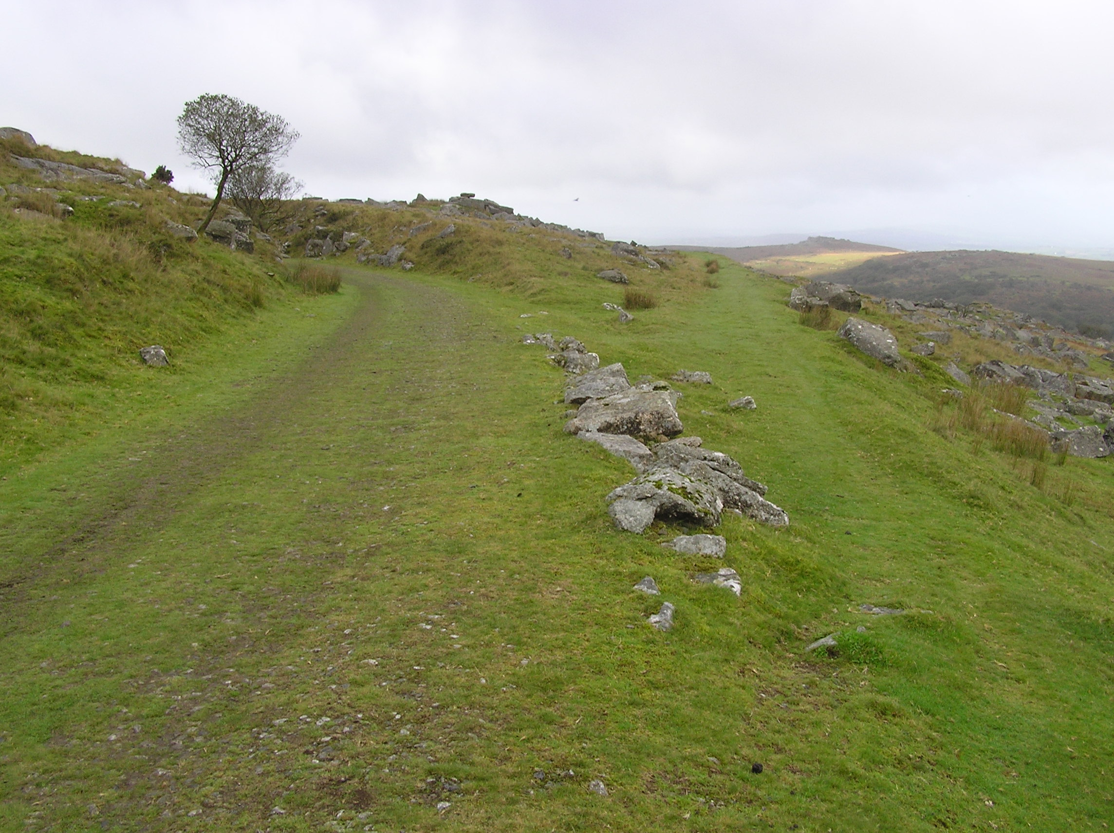 On Plymouth & Dartmoor Railway England at route divergence Kings Tor